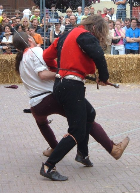 staged fight / historical fencing demonstration in Pavone Canavese